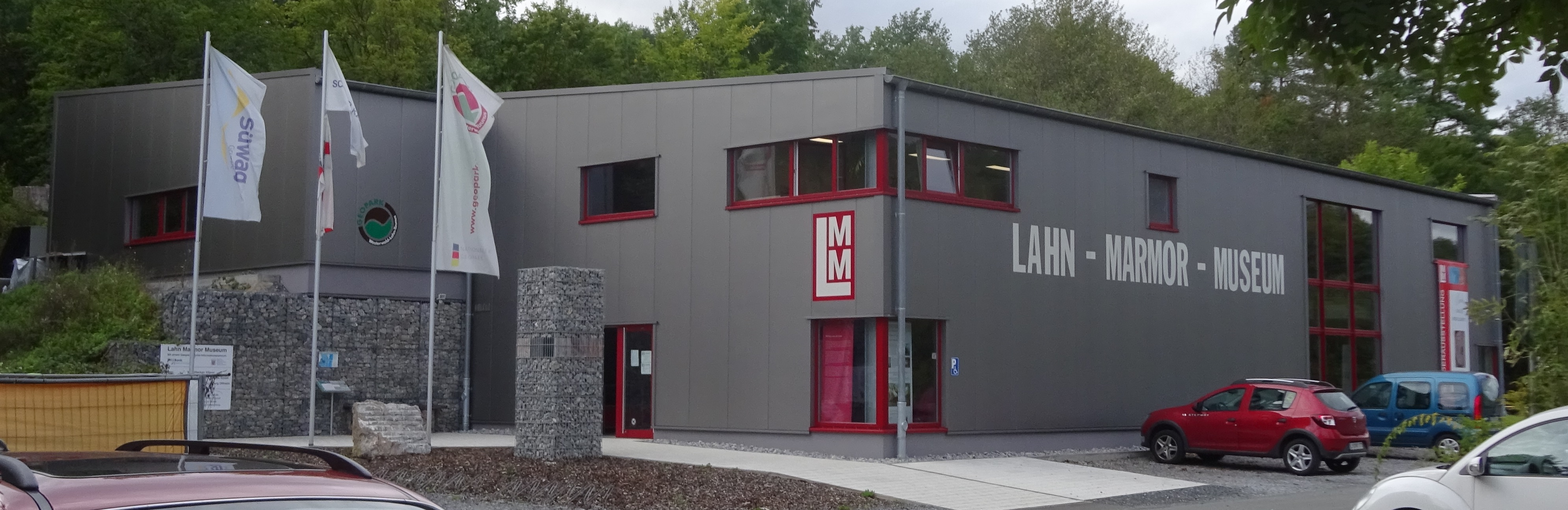 Lahn-Marmor-Museum Villmar, Building erected and opened in March 2016